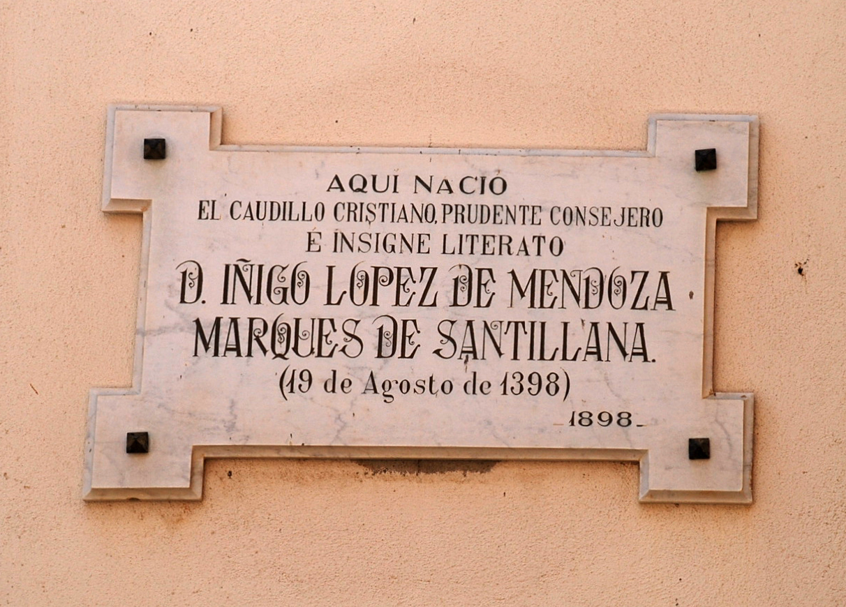 Commemorative plaque in the birthplace of Íñigo López de Mendoza, Marquis of Santillana, born in 1398 in Carrión de Los Condes (Palencia, Castile and León).